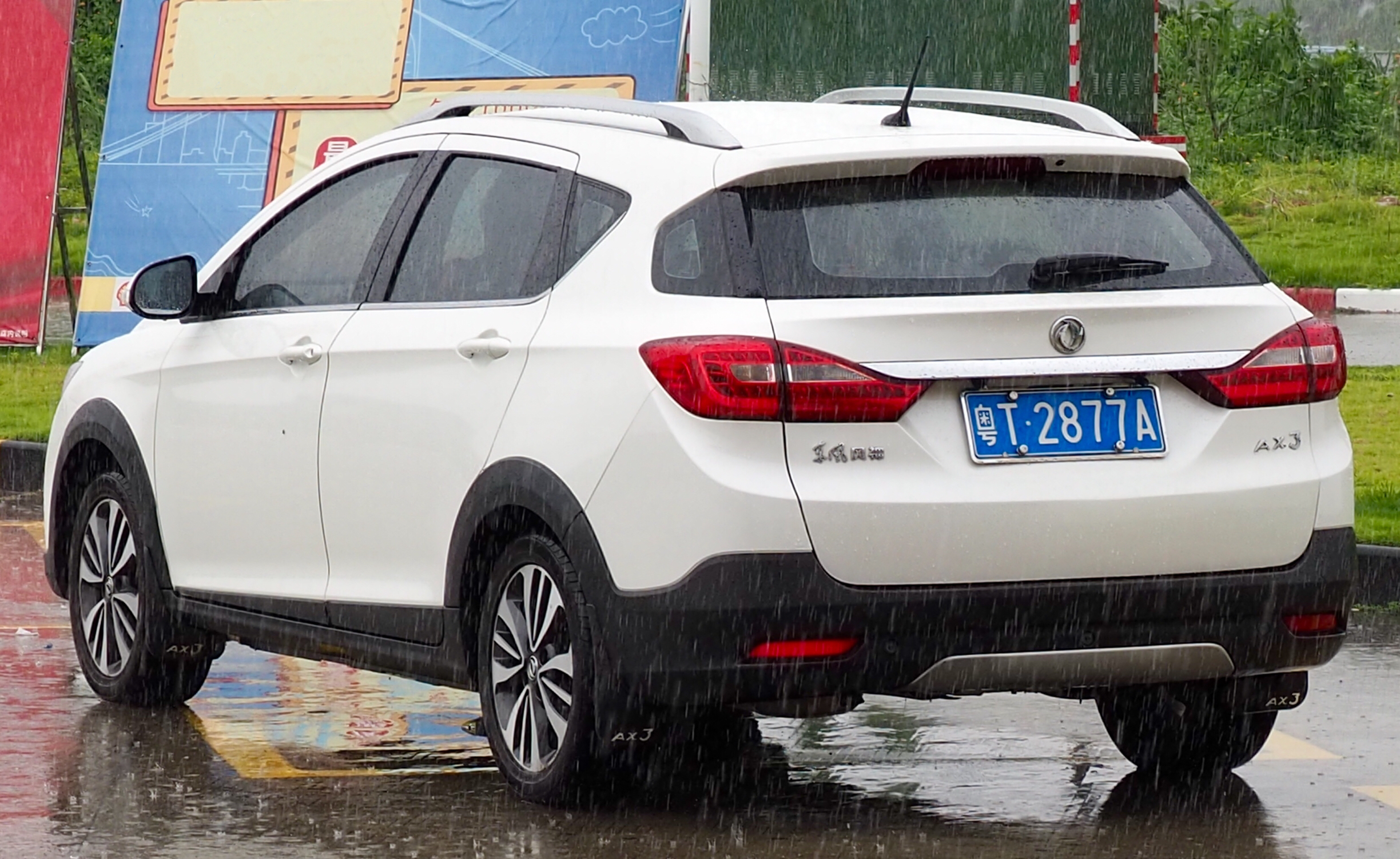 A 2015 Dongfeng Fengshen AX3 taken in Zhongshan, Guangdong province, China. 中文（中国大陆）: 一辆2015年的东风风神AX3，摄于中国广东省中山市。